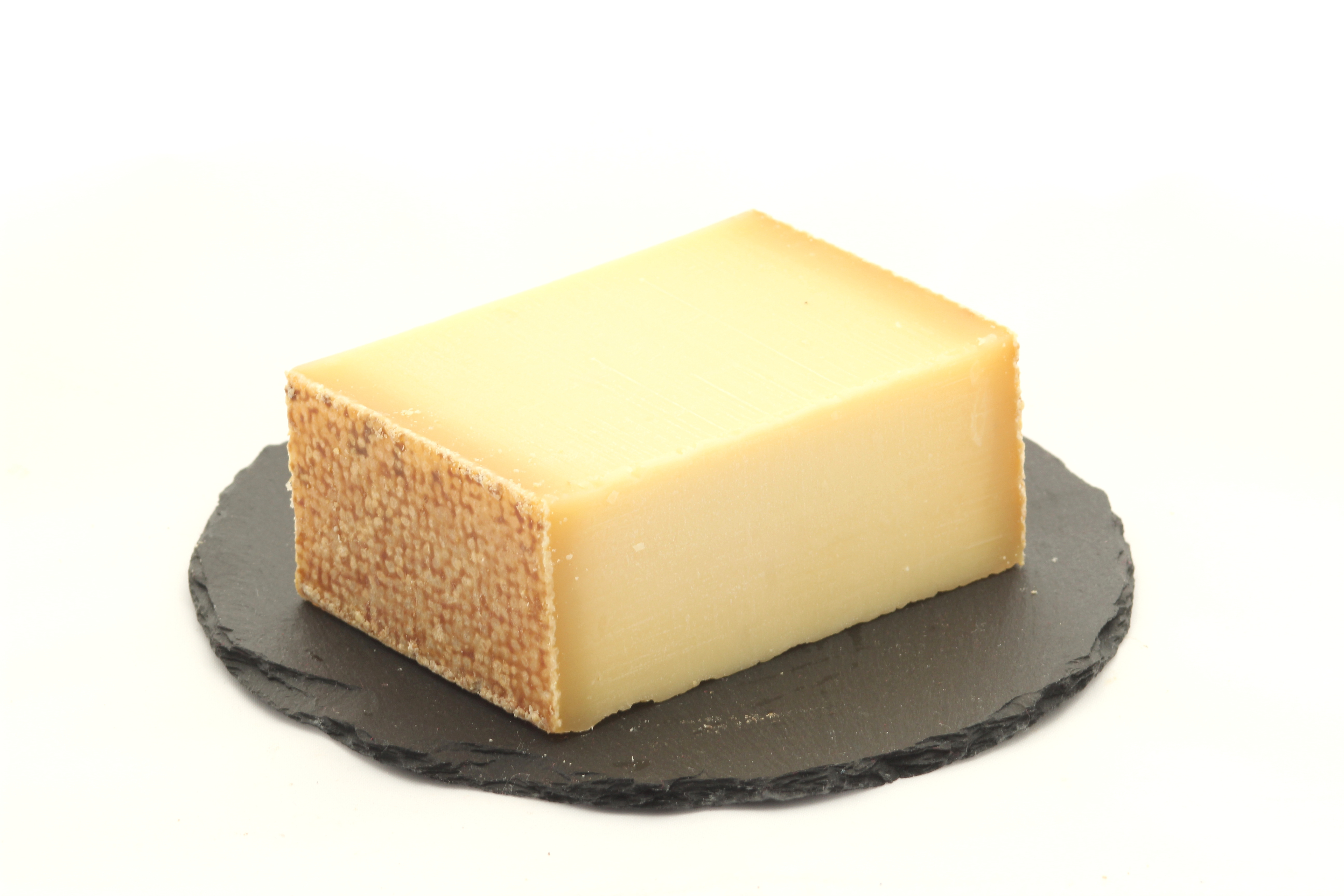 L'Etivaz - Swiss hard cheese, with whole raw cow's milk